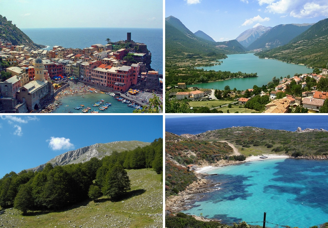 Collage. Based on the following images: File:Vernazza04.jpg, File:Lagobarrea001.jpg, File:528157591 92b8a2d75Cala Sabina, Isola Asinarae o.jpg